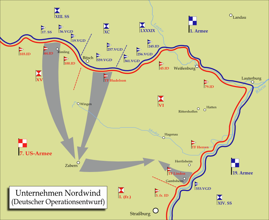 Map in German language, showing the original German planing for Operation Nordwind in 1945. The work is based mainly on this official US map.